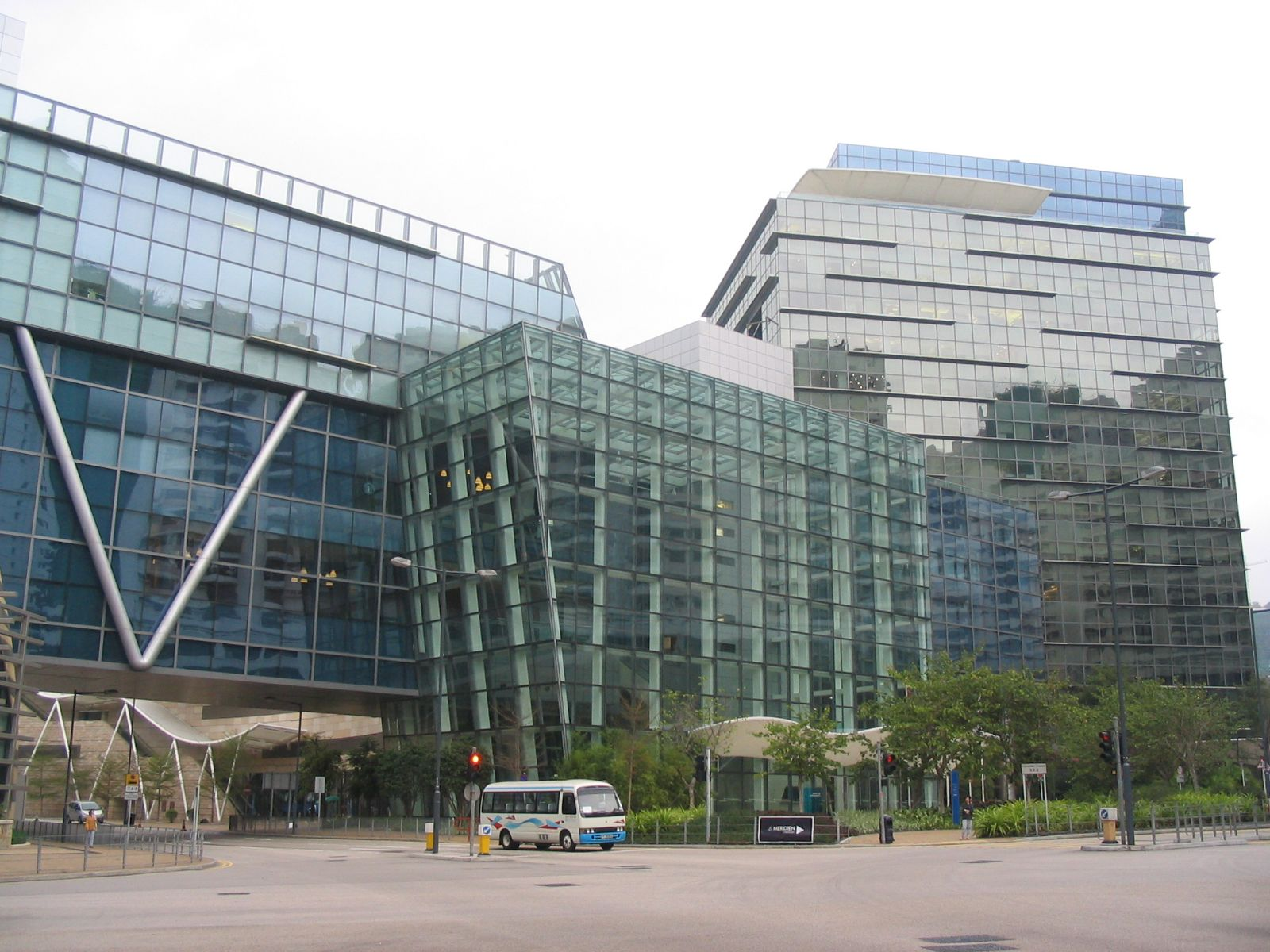 數碼港-2座 Tower 2, Cyberport